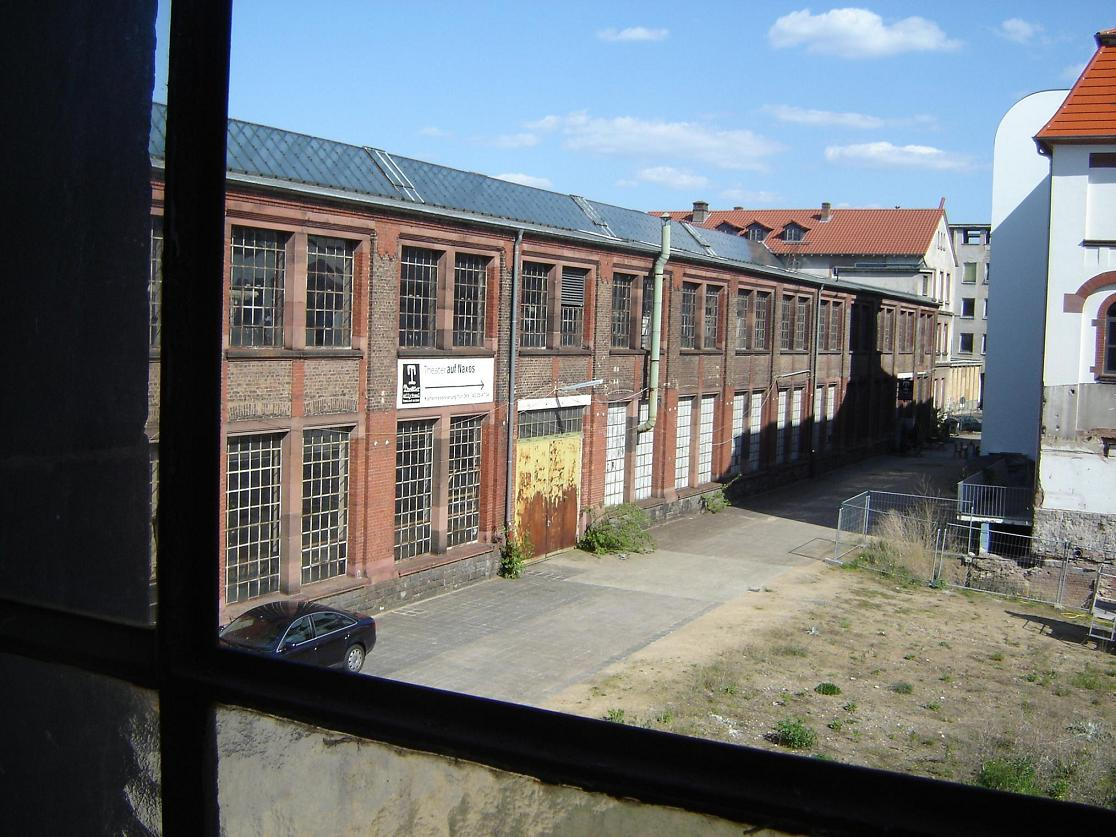 Naxoshalle (once factory, now cultural centre) in Frankfurt, Germany